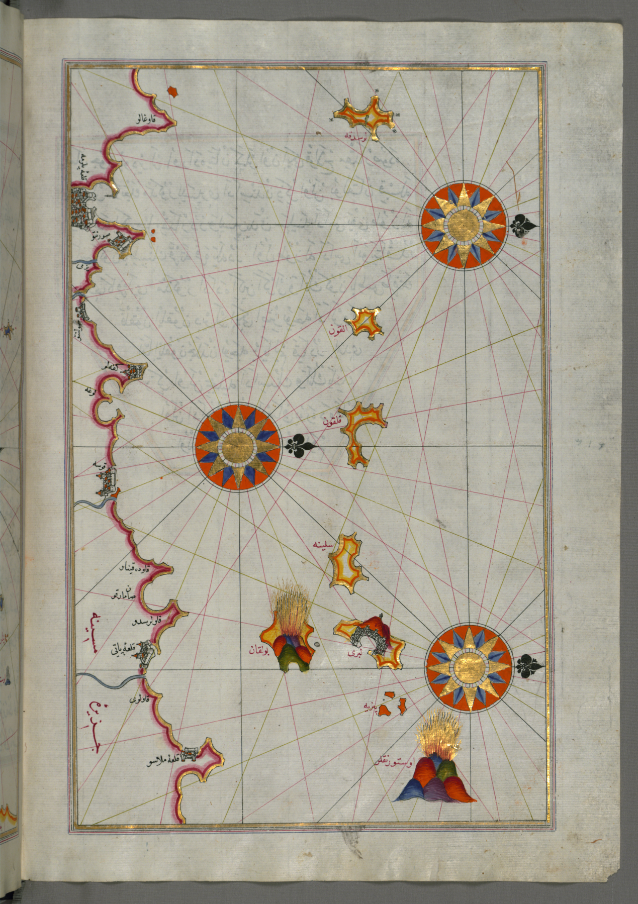 This folio from Walters manuscript W.658 contains a map of the northern coast of Sicily (here called the island of Messina, Mesine) from Milazzo (Milasu) to Palermo.